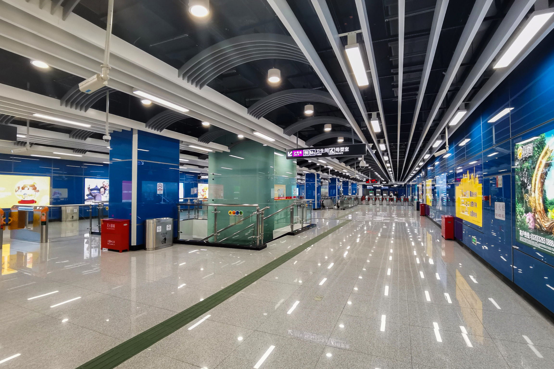 广州地铁钟岗站